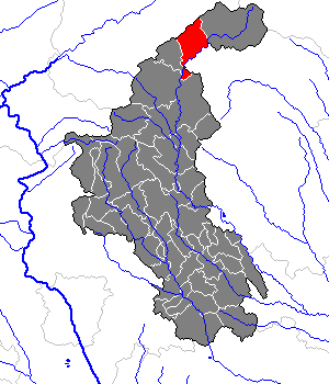 This map shows the area of the Gemeinde (municipality) Ratten in the Bezirk (district) Weiz, Styria, Austria.